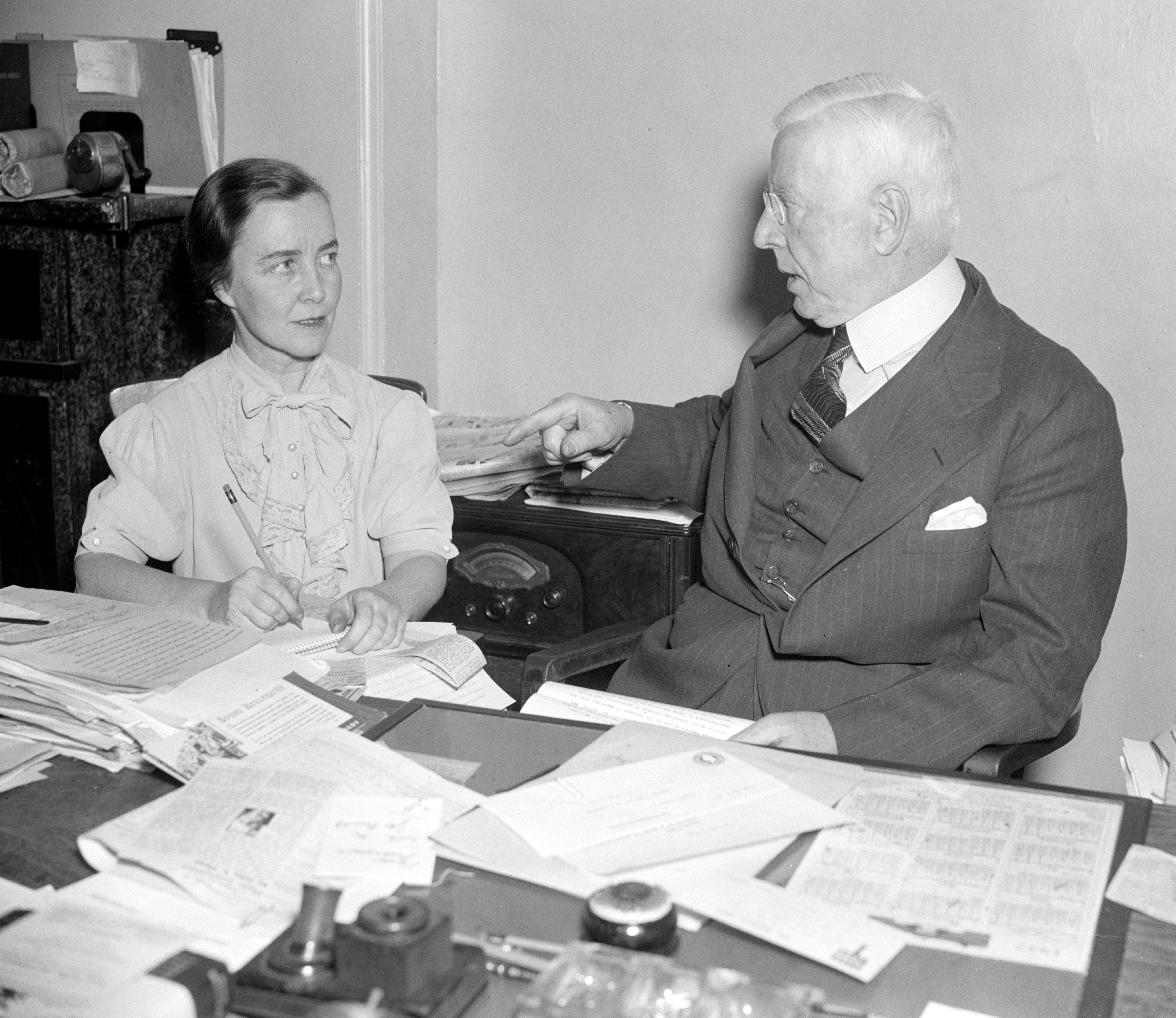 Mabel Shea and Mark Sullivan, American political columnist